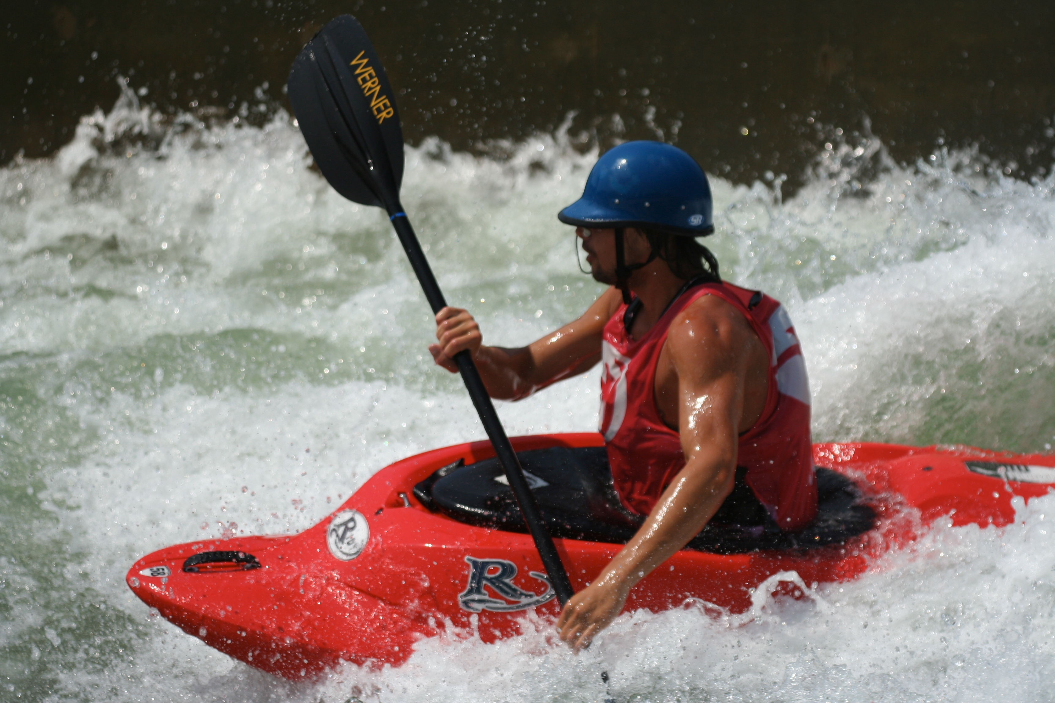 "An action shot of a random kayaker at the National Whitewater Center in Charlotte, NC." (description from flickr)